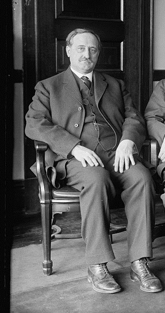 William B. Francis cropped from a Harris & Ewing photograph, 1914.